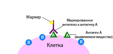 Diagram, created 14th September 2005, by Viki Male, to illustrate direct immunohistochemical staining.